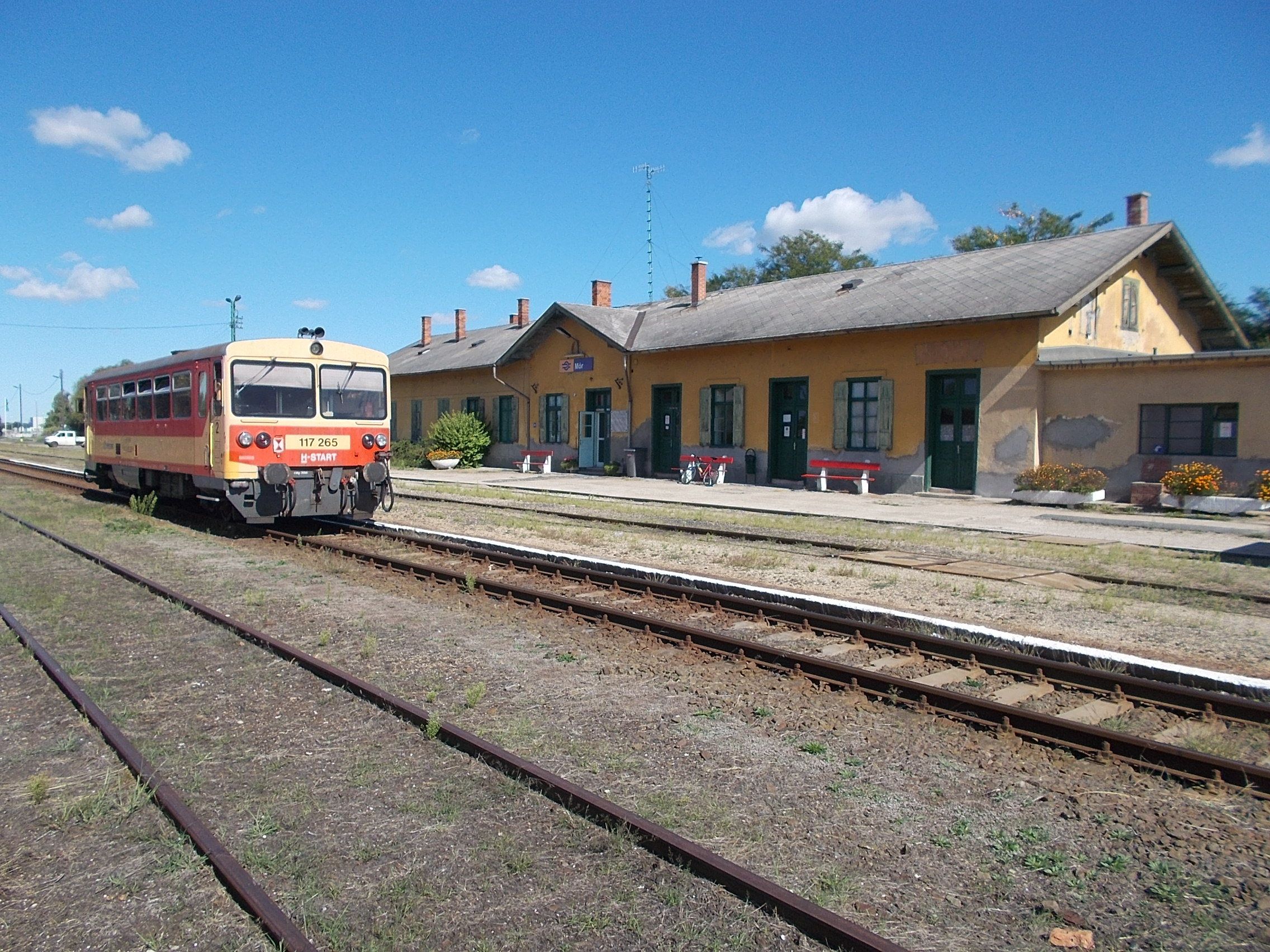 Mór railway station. - Gyár Street, Mór, Fejér County, Hungary.